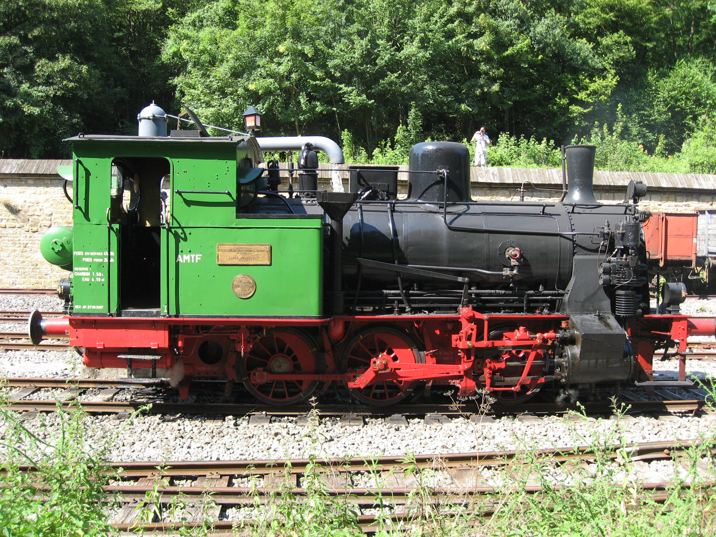 Train 1900 - Steam loco "Anna Nr. 9" at Fond de Gras station.